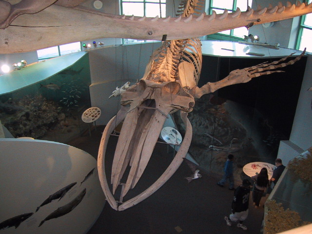 whale skeleton from the NC Museum of Science in Raleigh